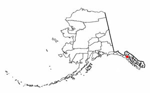 Adapted from Wikipedia's AK borough maps by Seth Ilys.